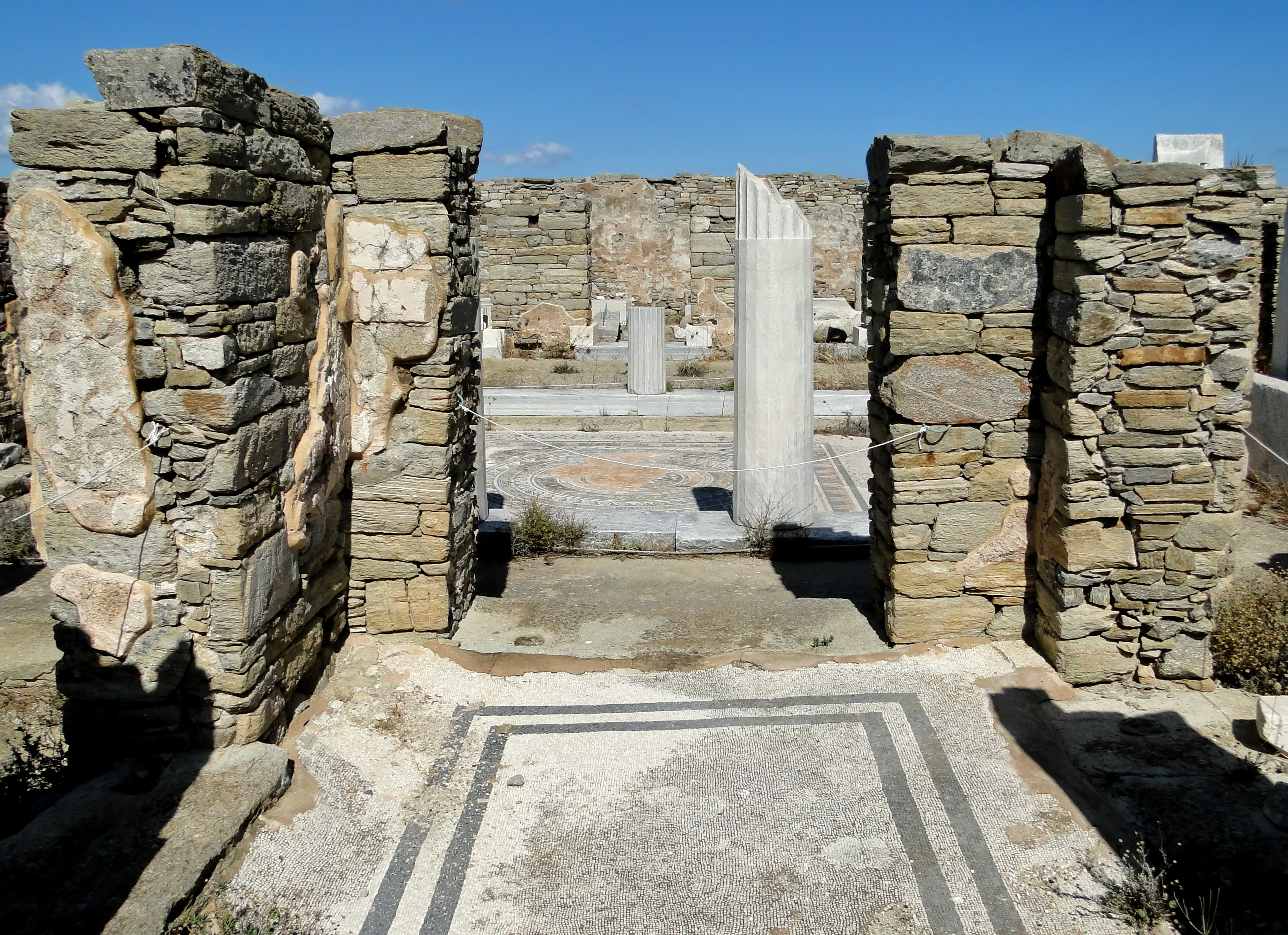 House of the Dolphins in Delos, Greece